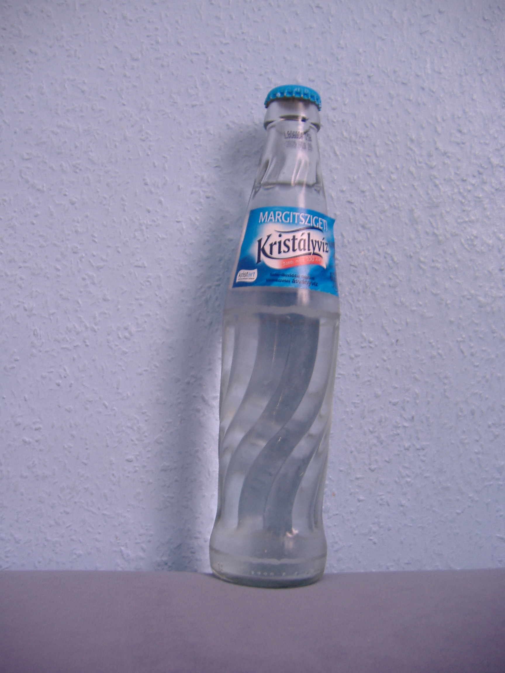 A bottle of Kristályvíz, a Hungarian mineral water.